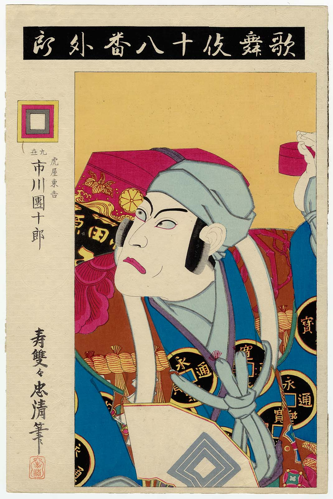 Part of the series The Eighteen Great Kabuki Plays